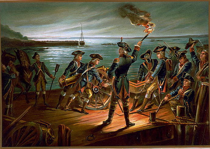 Painting of the American retreat from Long Island after the battle of Brooklyn